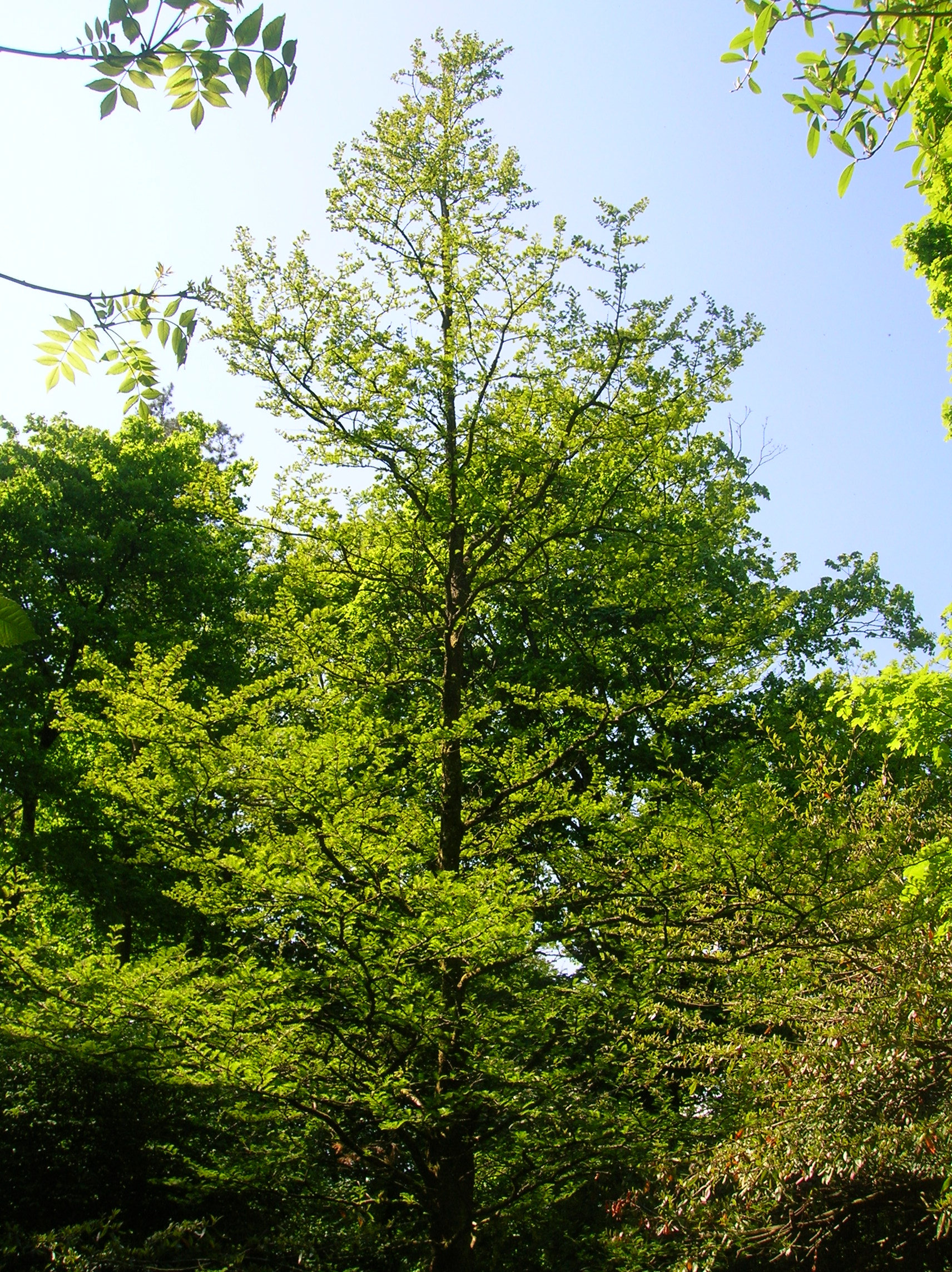 A Dawn Redwood tree at Speir's School Grounds, Beith, Scotland